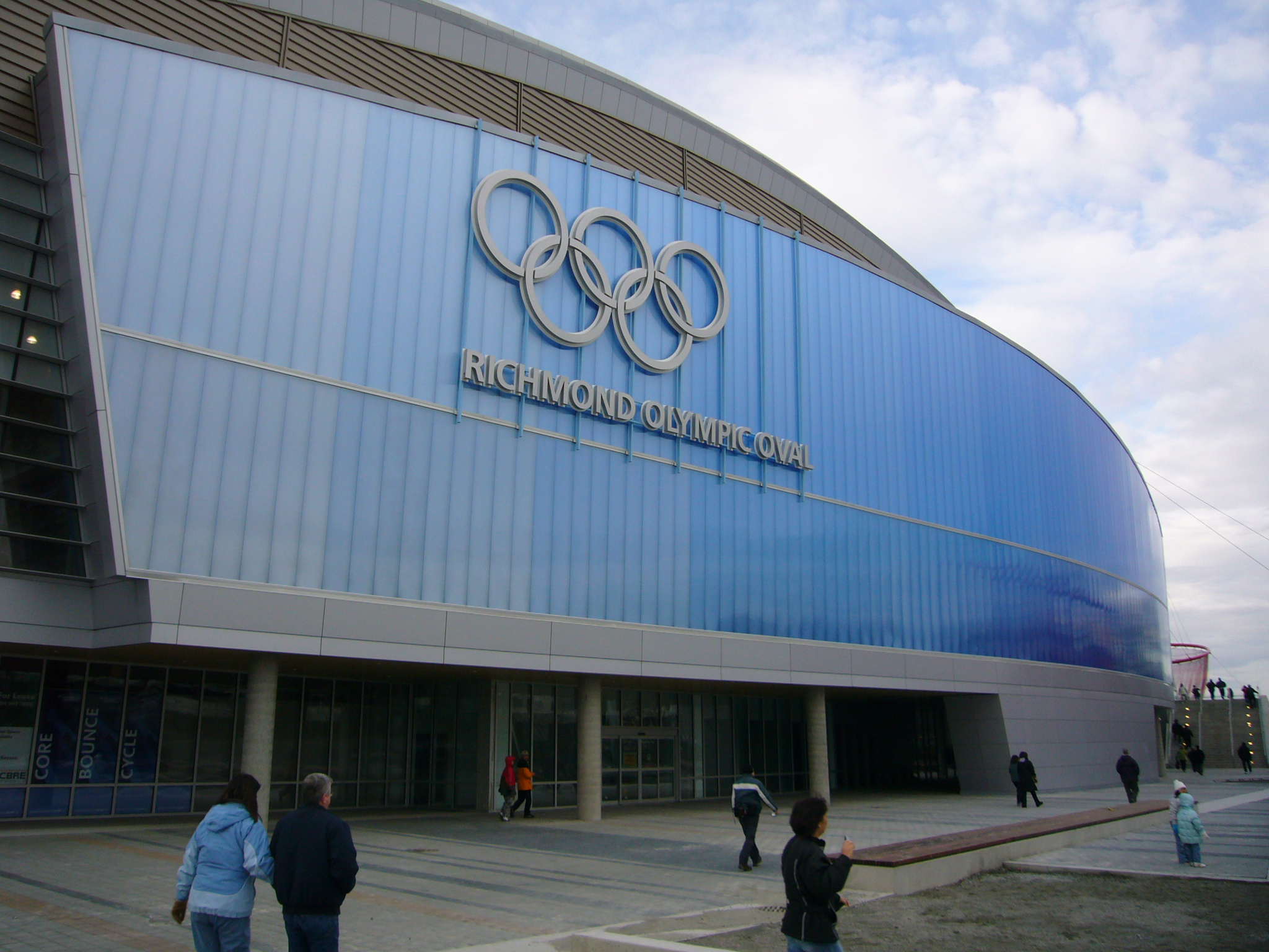 Front view the Richmond Olympic Oval; Richmond, Canada